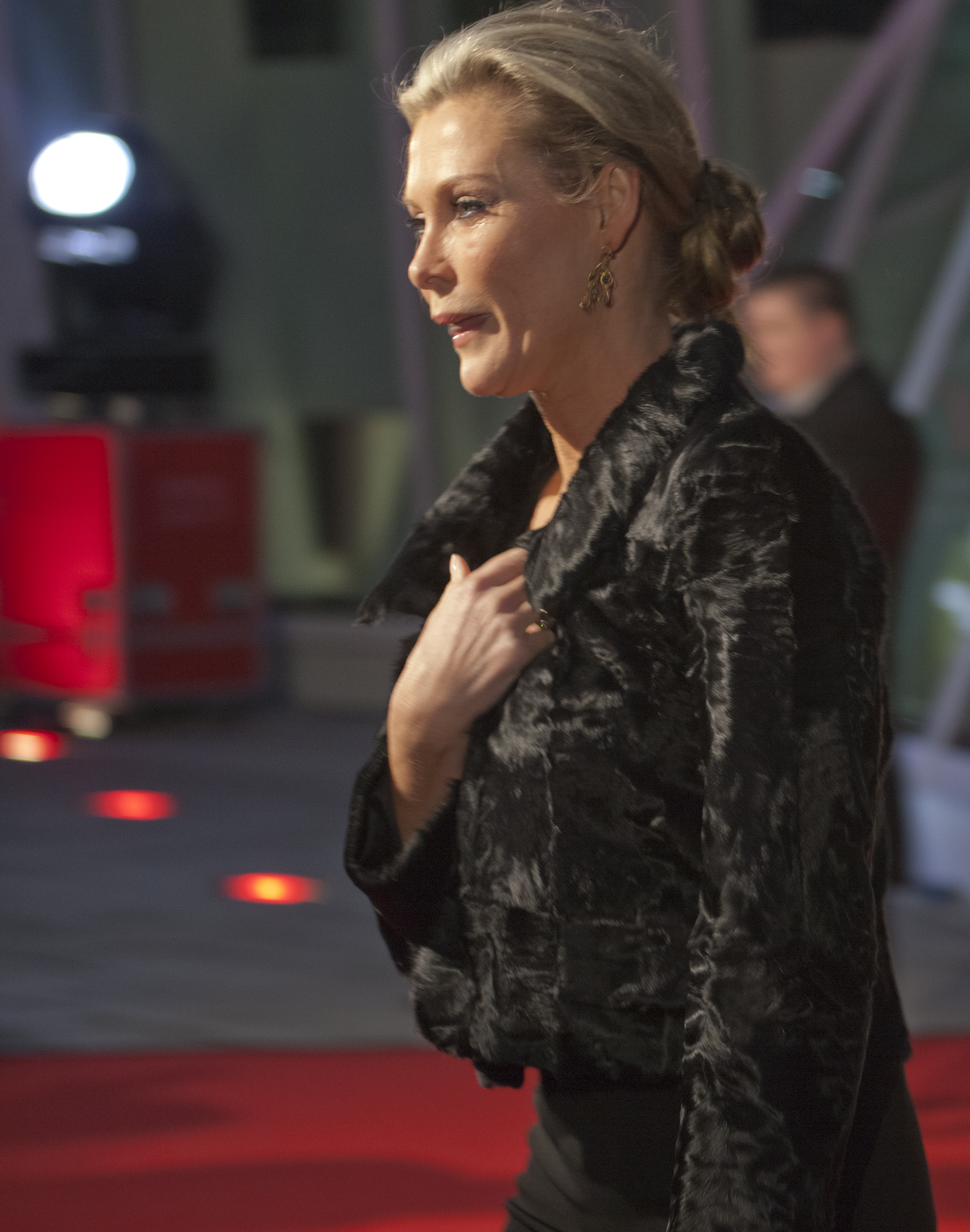 Alison Doody at the opening of the Grand Canal Theatre in 2010.